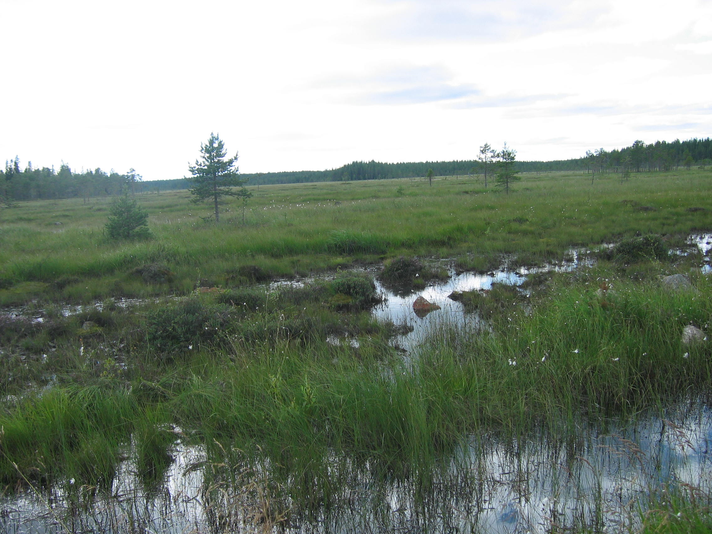 Niittysuo swamp in Utajärvi, Finland